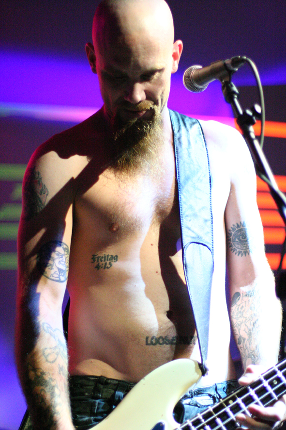 Nick Oliveri by Sam Ford